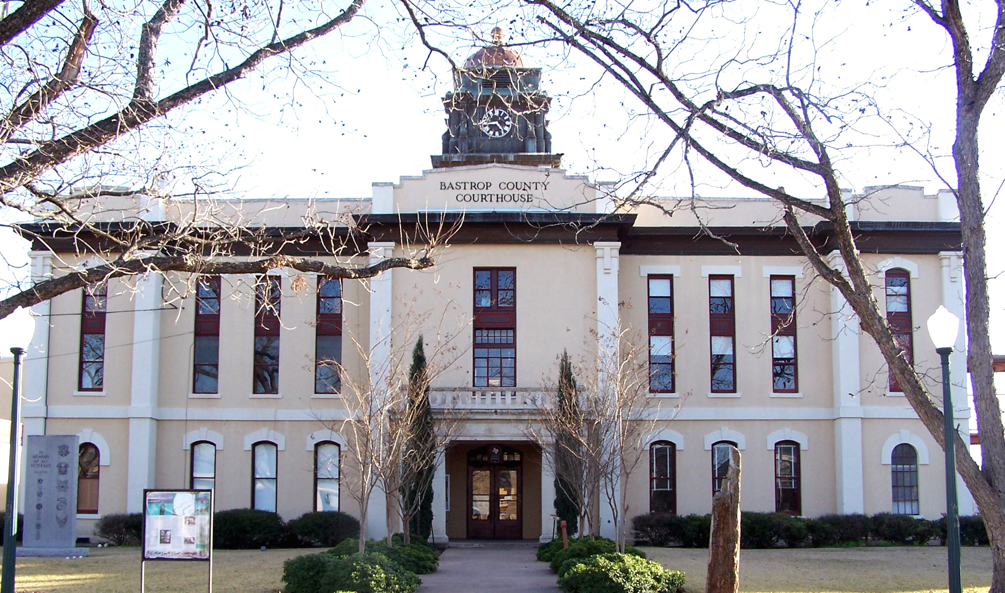 The classical revival style Bastrop County Courthouse located at 803 Pine St, Bastrop, Texas, United States was built in 1883 to replace the 1852 courthouse that burned. The Courthouse and Jail Complex were listed on the National Register of Historic Places on November 20, 1975.